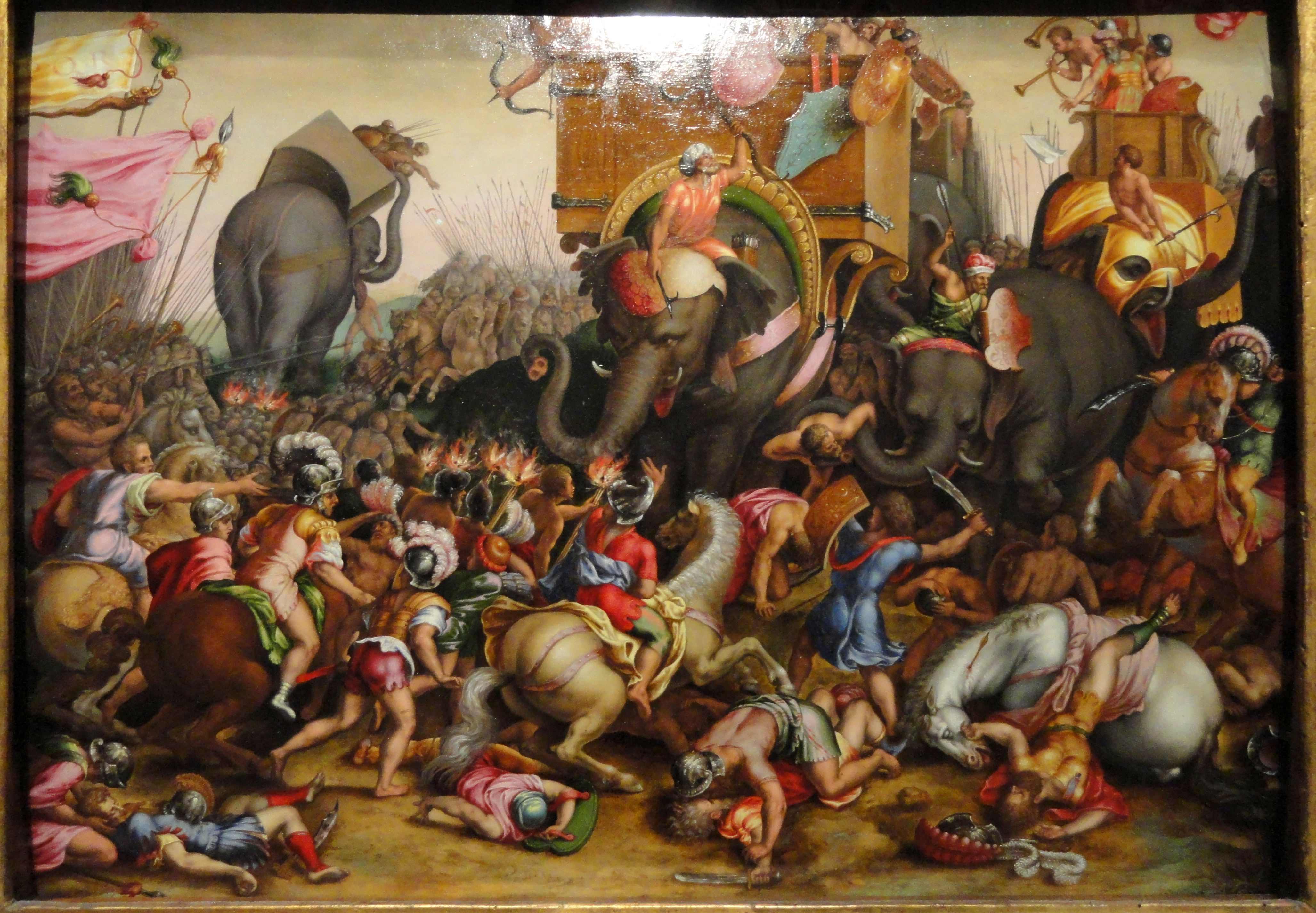 Exhibit in the Art Institute of Chicago, Chicago, Illinois, USA. This artwork is in the public domain because the artist died more than 70 years ago.